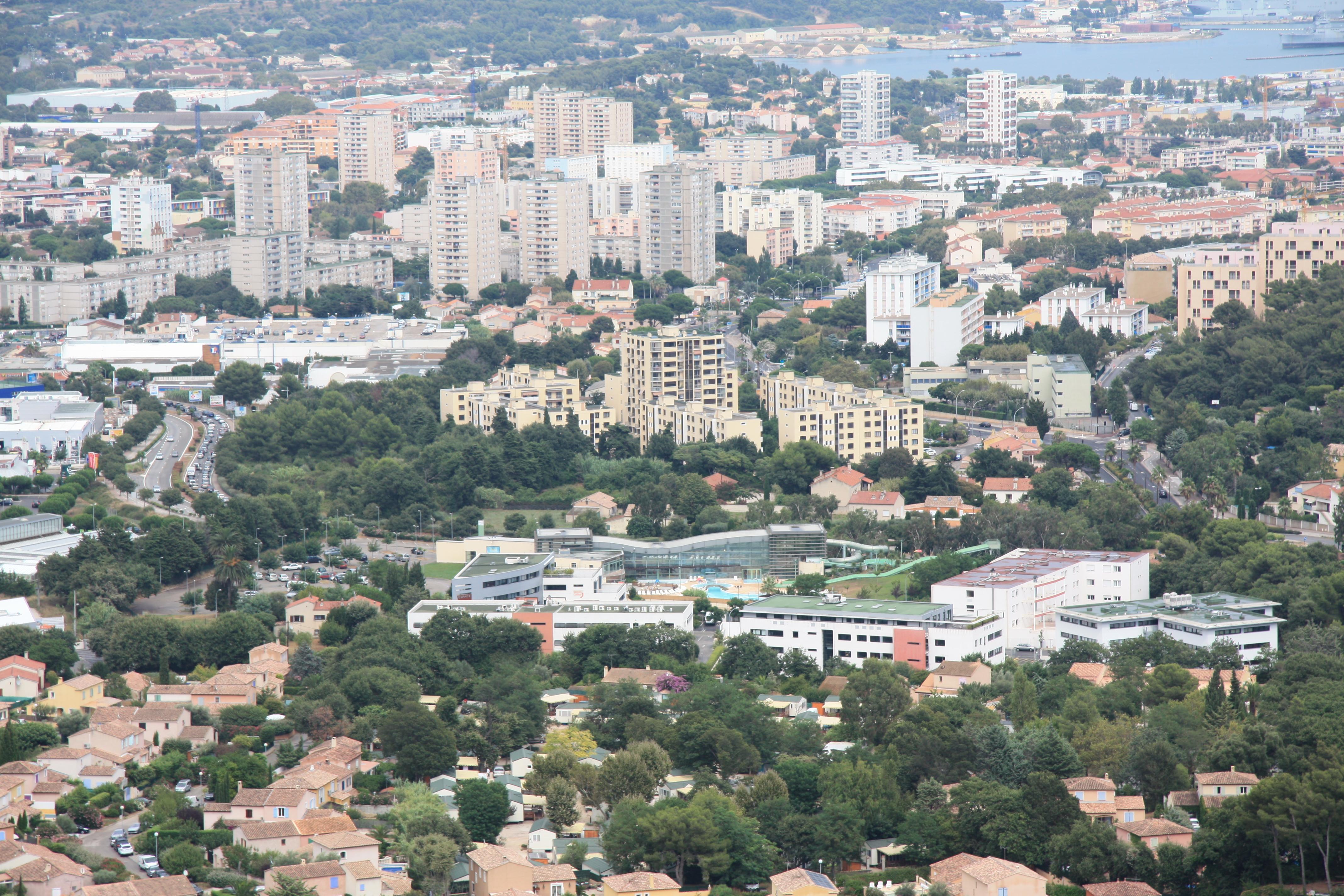 View of La Seyne-sur-Mer, France.